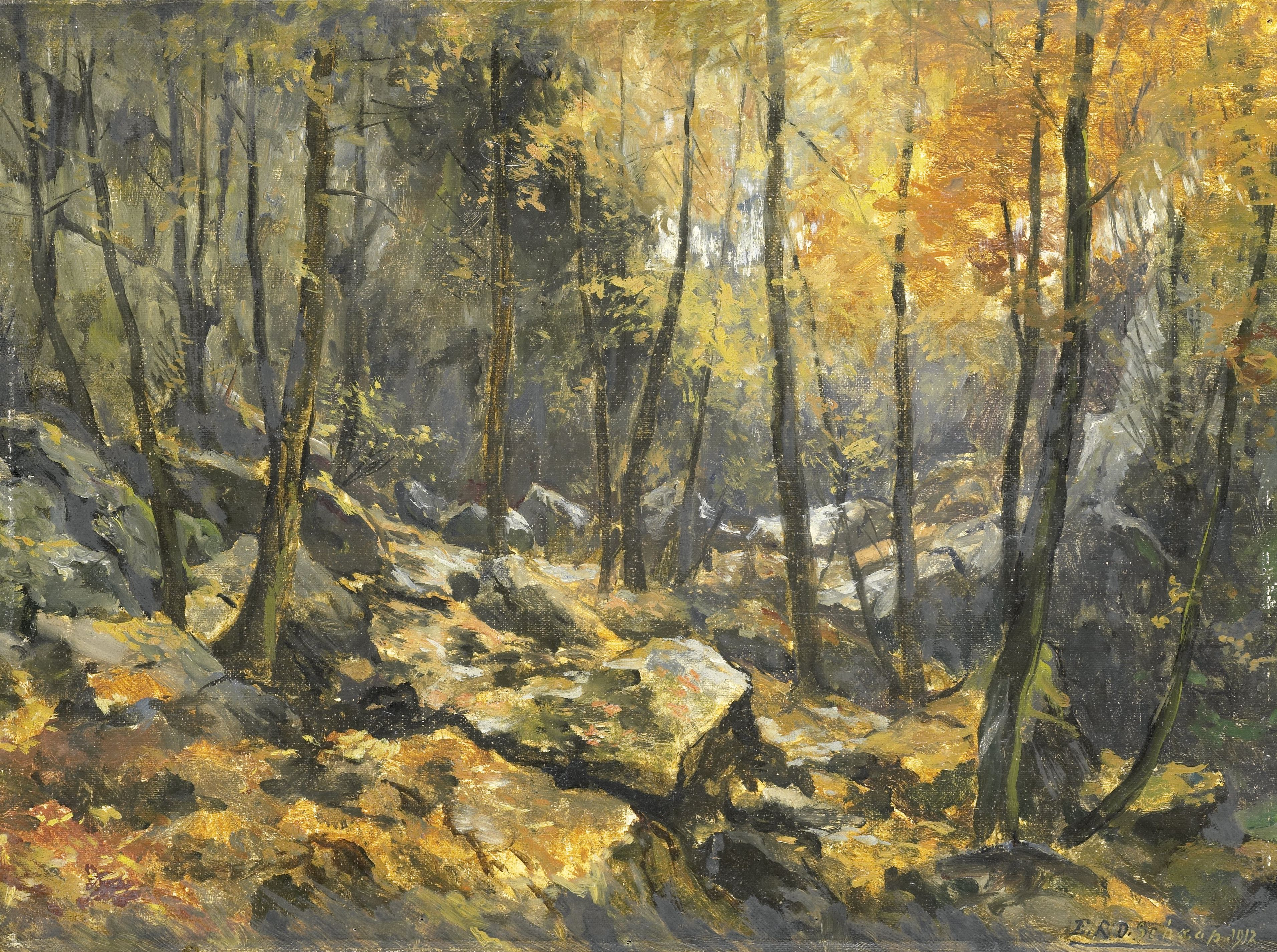 Painting entitled 'Felsenmeer'. Woodland scene with trees growing through rocks.